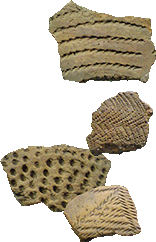 neolitic sherds (Old Belarusian History Museum)